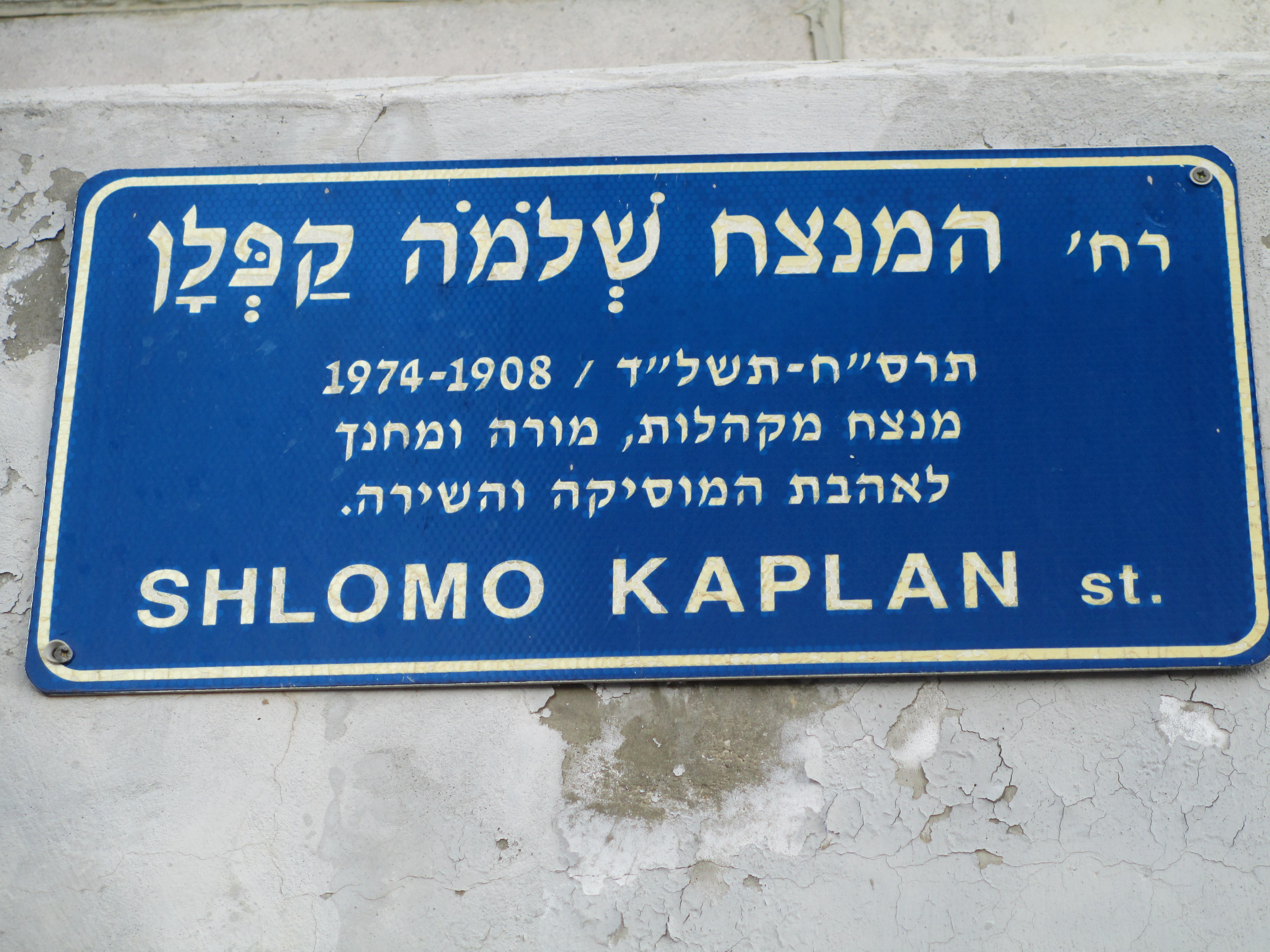 shlomo kaplan (choirs conductor) st. in tel aviv רחוב ע"ש מנצח המקהלות שלמה קפלן בתל אביב